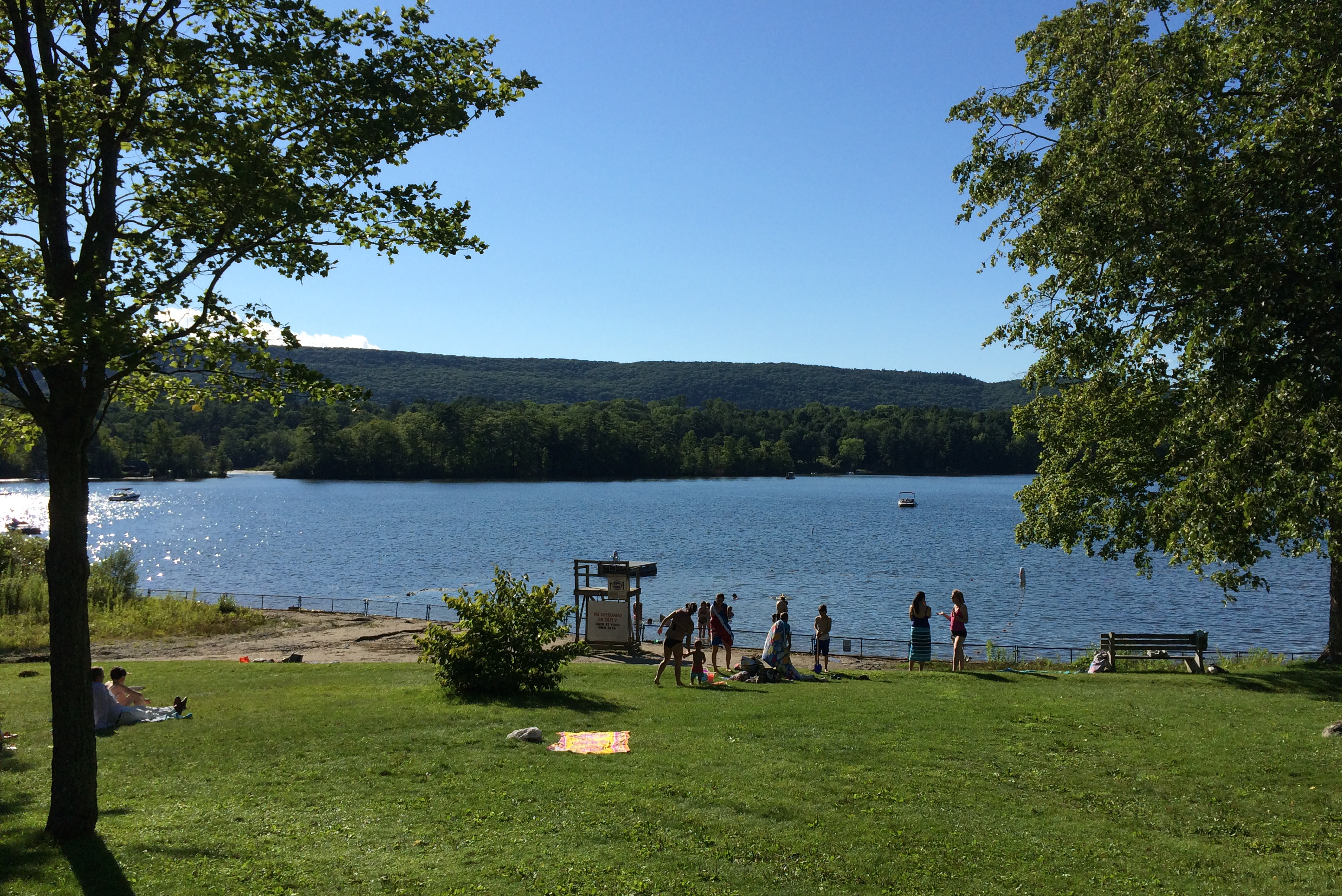 Looking west across Stockbridge Bowl on Stockbridge, Massachusetts from the Stockbridge Town Beach, with West Stockbridge Mountain on the horizon